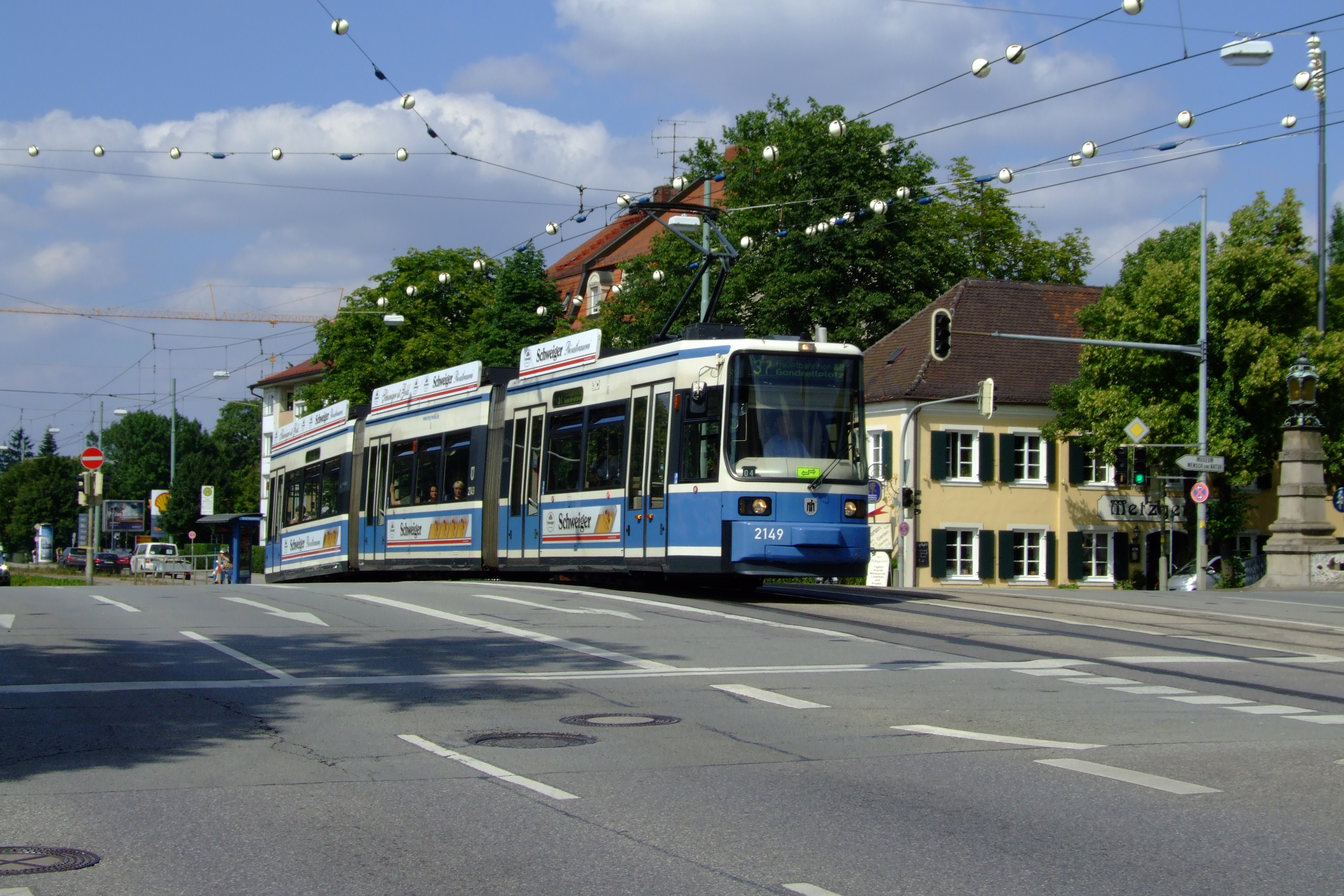 R2.2-type tram 2149 on the castle nymphenburg bridge. The yellow sign shows that this linie is redirected: In fact the line 37 uses parts of the tramlines 17 and 18.